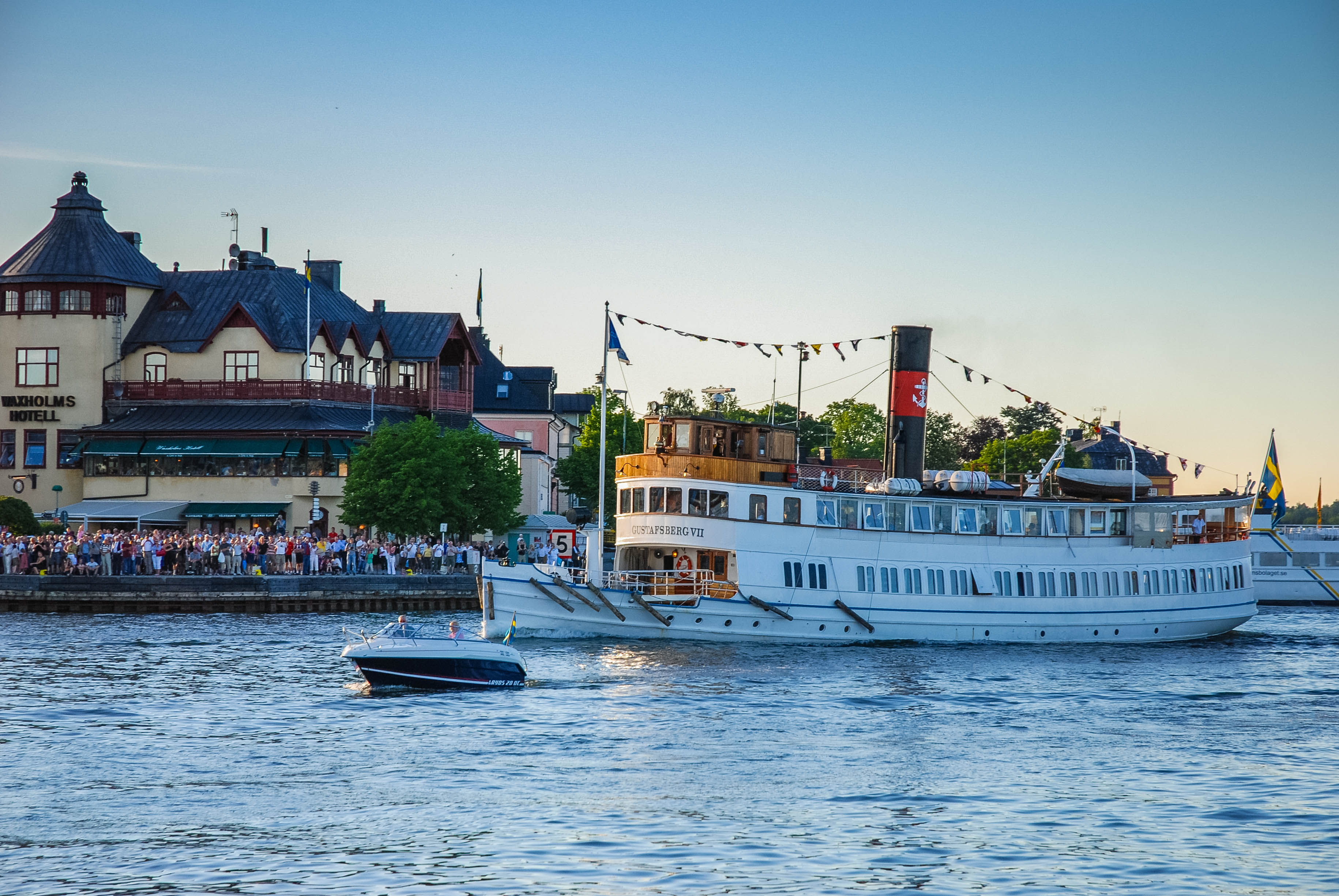 M/S Gustafsberg VII outside the town of Vaxholm, Sweden. Photo: Bengt Oberger